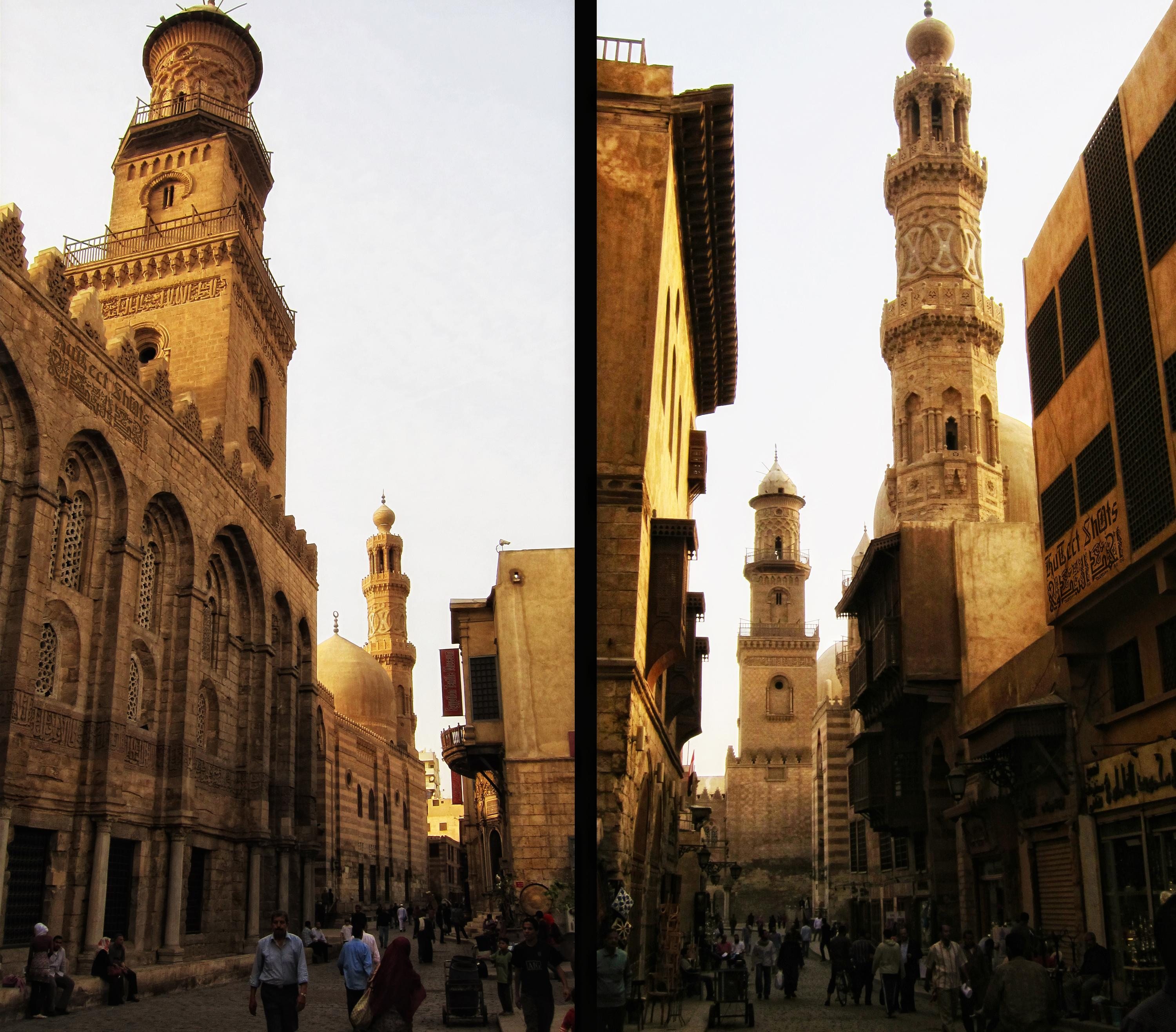 Al-Muizz Street (Shariʕa al-Muizz li-Deen Illah) (30°02′ 48" N 31°15′ 36"E) in Islamic Cairo, Egypt is one of the oldest streets in Cairo, approximately one kilometer long. A United Nations study found it to have the greatest concentration of medieval architectural treasures in the Islamic world.[1] The street (shariʕa in Arabic) is named for Al-Muʢizz li-Deen Illah, the fourth caliph of the Fatimid dynasty. It stretches from Bab Al-Futuh in the north to Bab Zuweila in the south. Starting in 1997[2] [3], the national government carried out extensive renovations to the historical buildings, modern buildings, paving, and sewerage to turn the street into an "open air museum", with work scheduled to be completed in October 2008. On April 24, 2008, Al-Muizz Street was rededicated as a pedestrian only zone between 8:00 am and 11:00 pm; cargo traffic will be allowed outside of these hours. More.